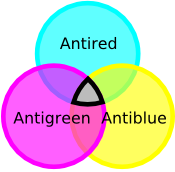 File:Quark_Anticolors.svg in PNG format